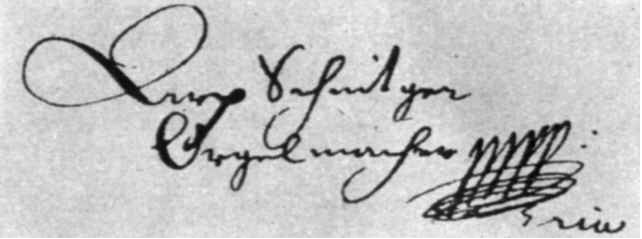 signature of Arp Schnitger, German organbuilder